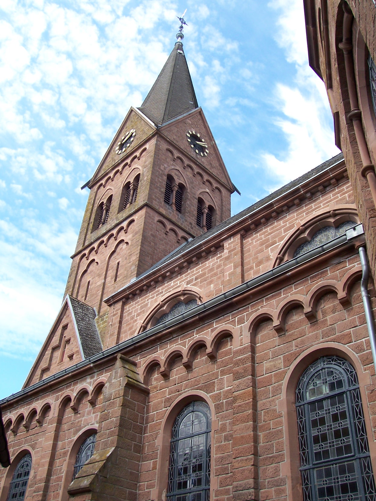 Tower of the church Heiligstes Herz Jesu (Hillesheim-Niederbettingen)